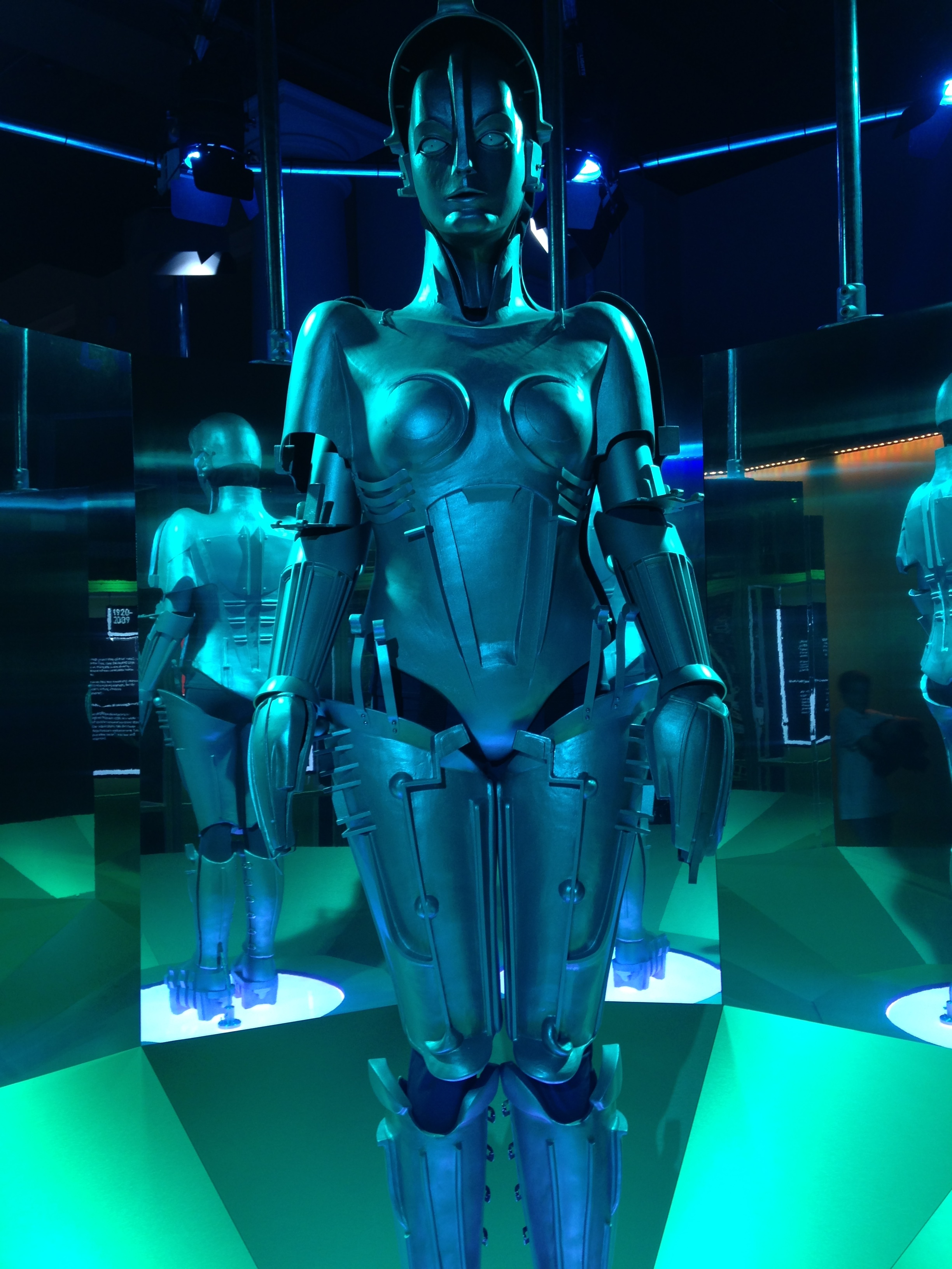 Science Museum Robots Exhibition